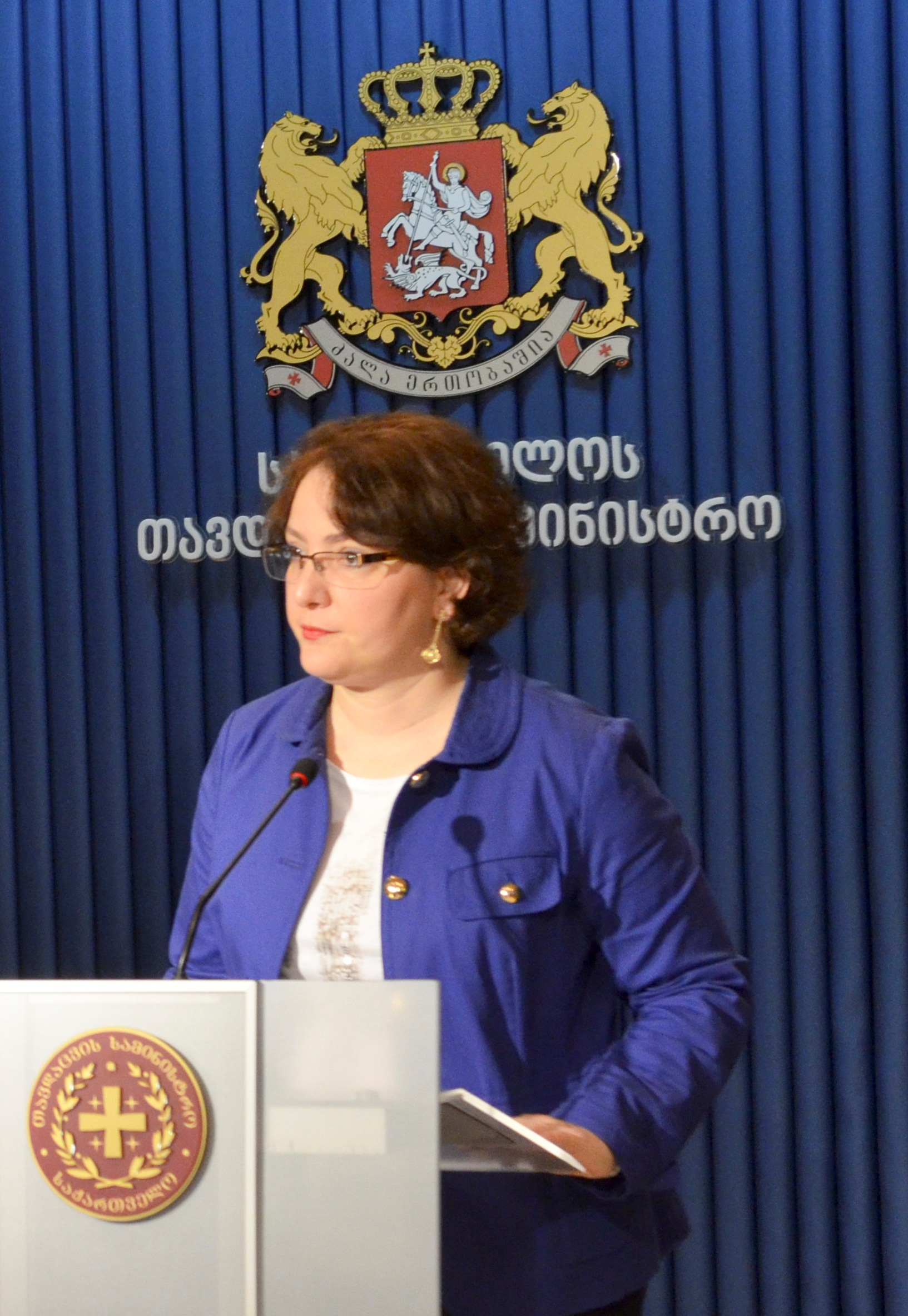 TBILISI, Georgia--Tinatin Khidasheli, Georgian minister of defence and Lt. Gen. Ben Hodges, commander U.S. Army Europe, conduct a joint press conference at the ministerial headquarters at the conclusion of Exercise Noble Partner here May 24. Noble Partner was a two-week exercise designed to increase interoperability between U.S. Army Europe and Georgian forces. (U.S. Army photo by Sgt. A.M. LaVey/173rd Abn. Bde. PAO)